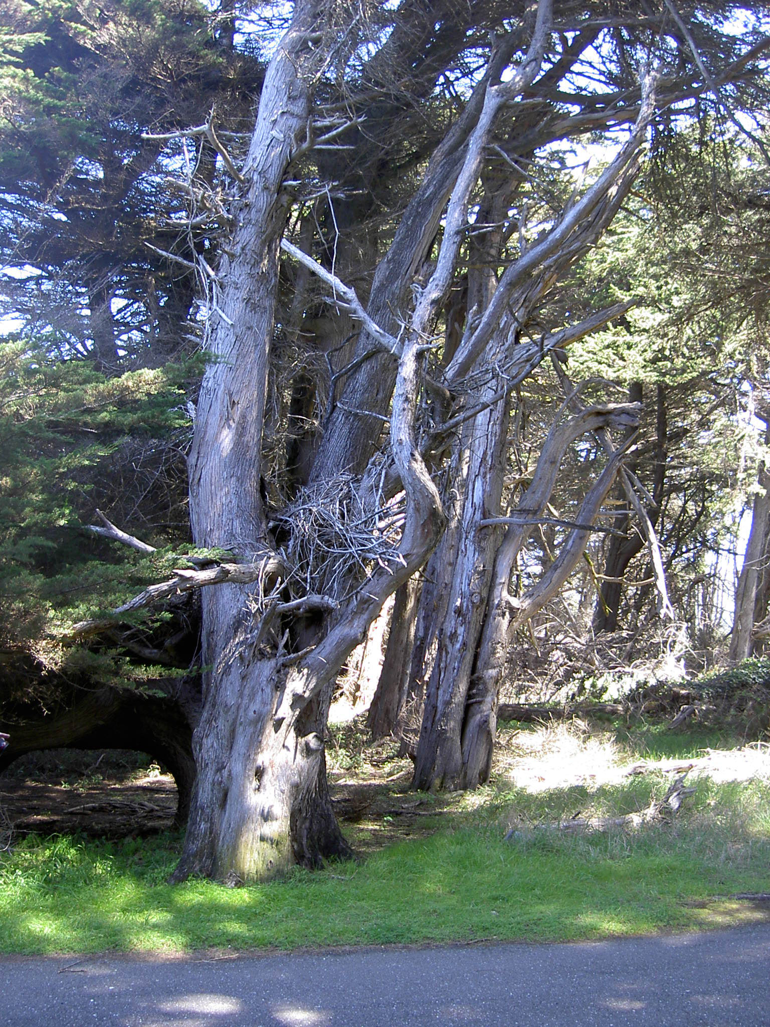 trees at Gualala Point Regional Park